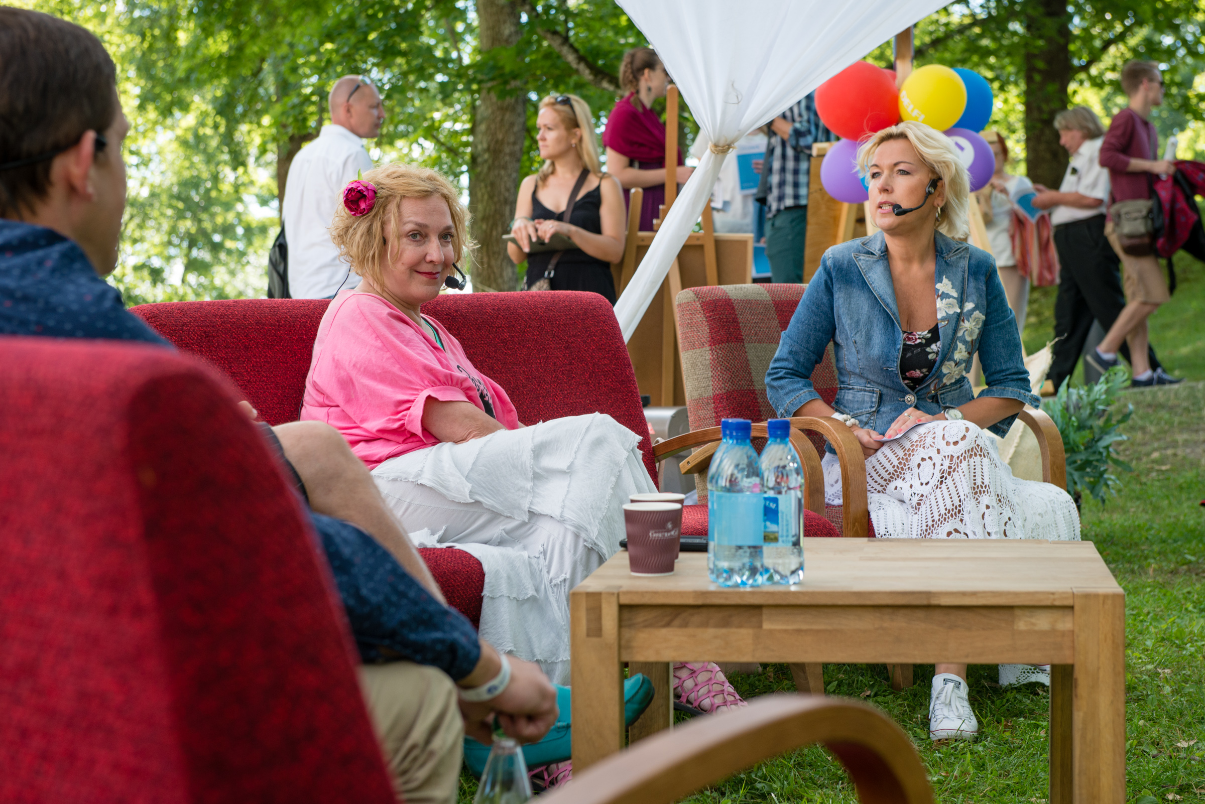 "Kas standup on uus Eesti teater"